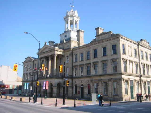 Victoria Hall, Cobourg, Ontario, Canada